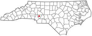 This file was previously uploaded but there was a problem with use on the infobox. I'm reuploading with a different name in hope that it will correct the issue.